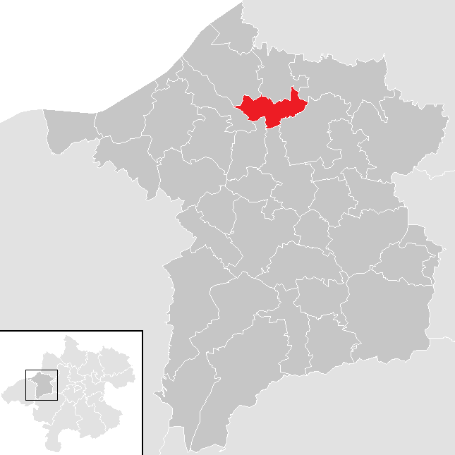 district Ried im Innkreis